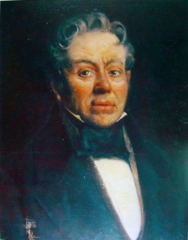 Posthumous portrait of the Italian composer Valentino Fioravanti (1764 – 1837), oil on canvas 67 cm x 50 cm. The original is held in the museum of the Conservatorio di musica San Pietro a Majella in Naples.